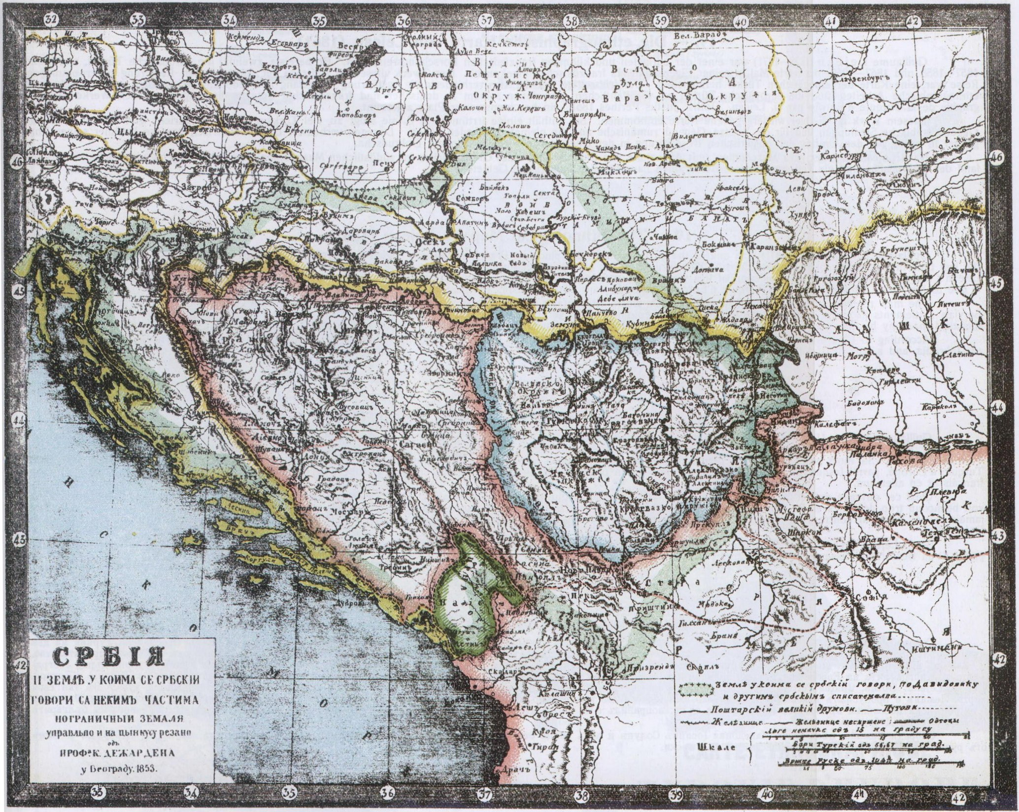 Ethnological map by Professor Constant Desjardins (1787‒1876). This map bears the title „Serbia and the districts in which Serbian language is spoken". It was issued in Belgrade in 1853. The author states that his map had been put together according to Serbian authors. Per this map, the area where Serbian language is spoken stretches approximately northwest from the line: Prizren-Pristina-Prokuplje-Nis.